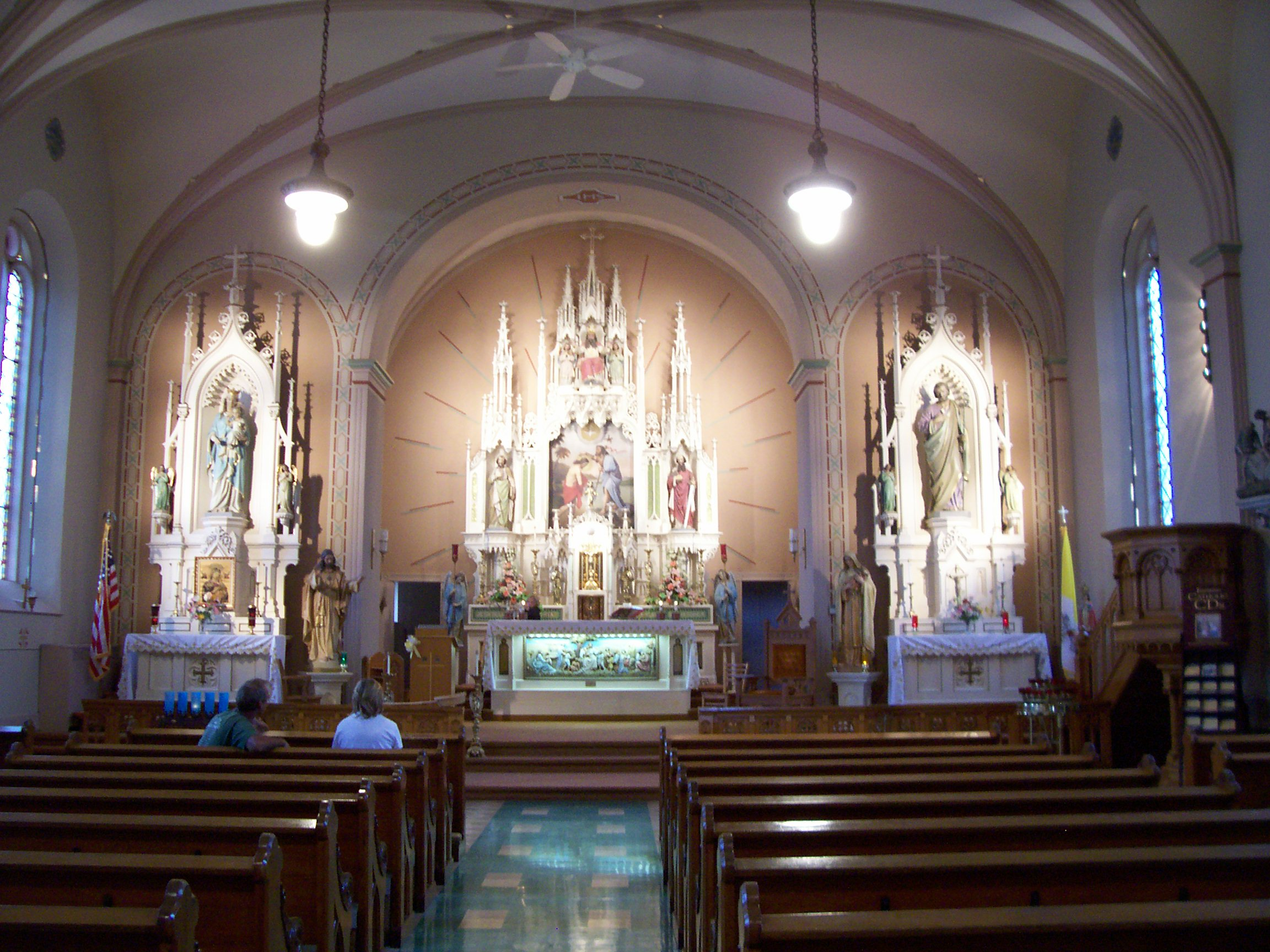 The interior of the St. John the Baptist Roman Catholic Church in Johnsburg, Wisconsin. It was built in the 1850s so the architecture is in public domain. The building is listed on the National Register of Historic Places.